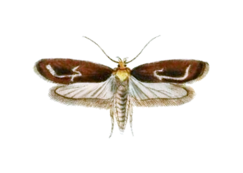 Blunt's Flat-body (Purple Carrot-seed Moth). An illustration from British Entomology by John Curtis (Vol. 6, Lepidoptera).